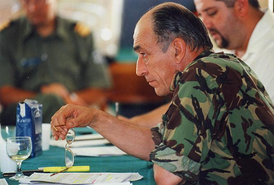 General Mike Jackson serving as Deputy to General Wesley Clark US Army